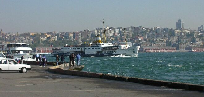 Golden Horn